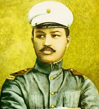 Portrait of Antonio Luna